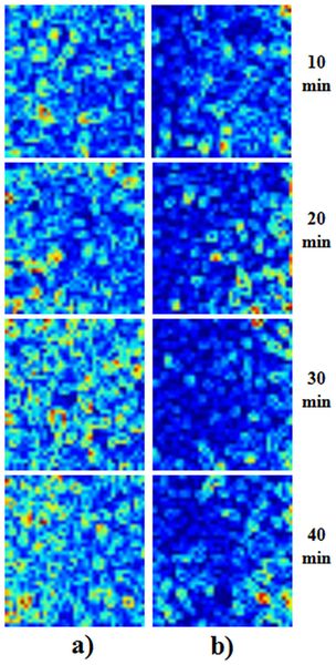 LASCA map